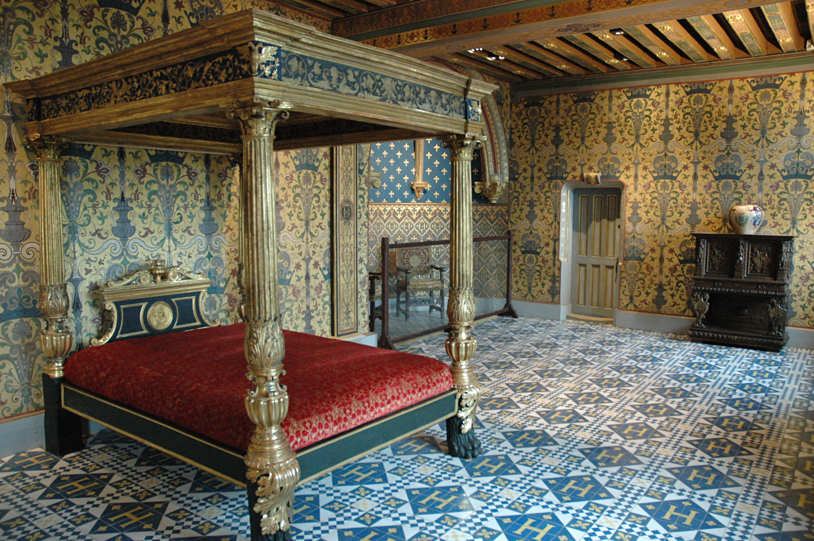 Château de Blois, the king's bedroom